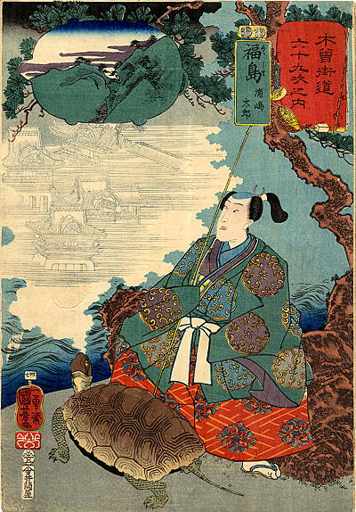 Kuniyoshi Utagawa, (38.) Fukushima Station, 1852. Series:"69 stations of the Kiso-kaidō". The print depicts Urashima Tarō beneath a pine tree on the shore of the Kiso River; he is accompanied by a tortoise, from whose mouth issues a vision of Hōrai. Note that there is a local legend that developed here around Urashima, but this area is landlocked and nowhere near ocean. See Nezame no toko, which is actually closer to Agematsu station rather than adjacent Fukushima.